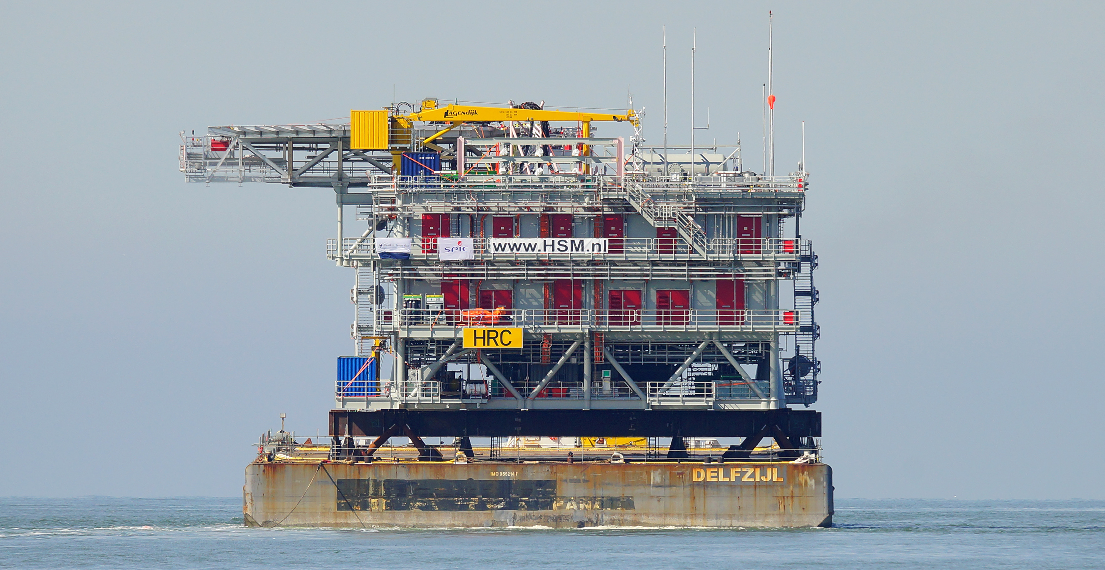 Transport of Horns Rev C offshore substation (topside) on Wagenborg Barge 9, Nieuwe Waterweg, NL